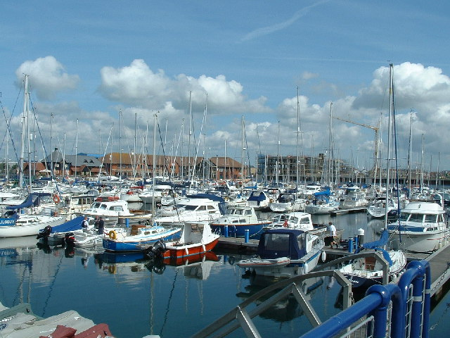 Sovereign Harbour, Eastbourne. New harbour side development, north-east of Eastbourne.